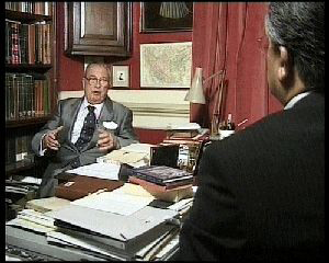 Peter Avery, the Iranologist, is being interviewed by Ali Akbar Abdolrashidi in 2003 in his office at the University of Cambridge, U.K. Photo by: Ali Akbar Abdolrashidi.